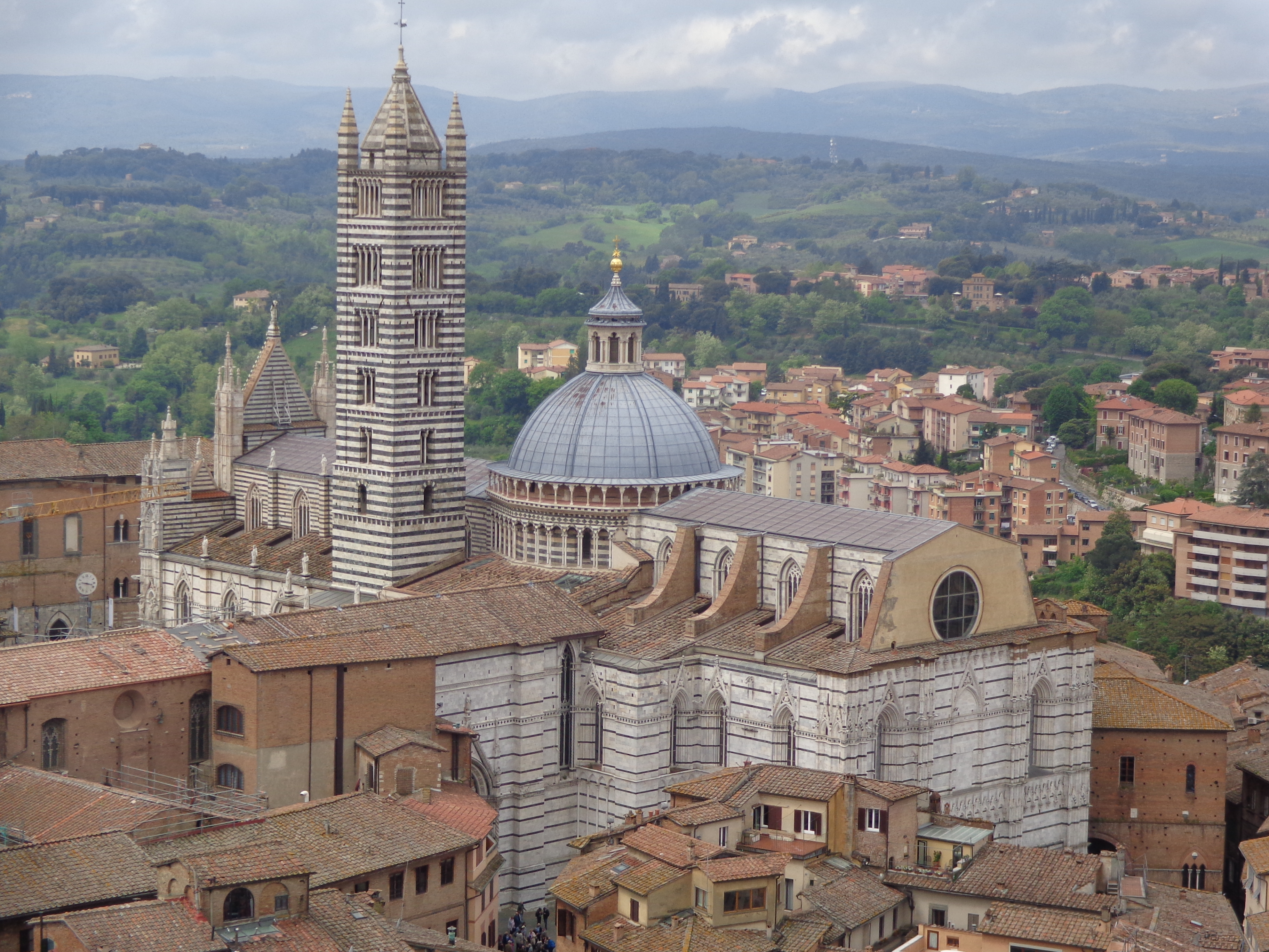 Cathedral of Siena